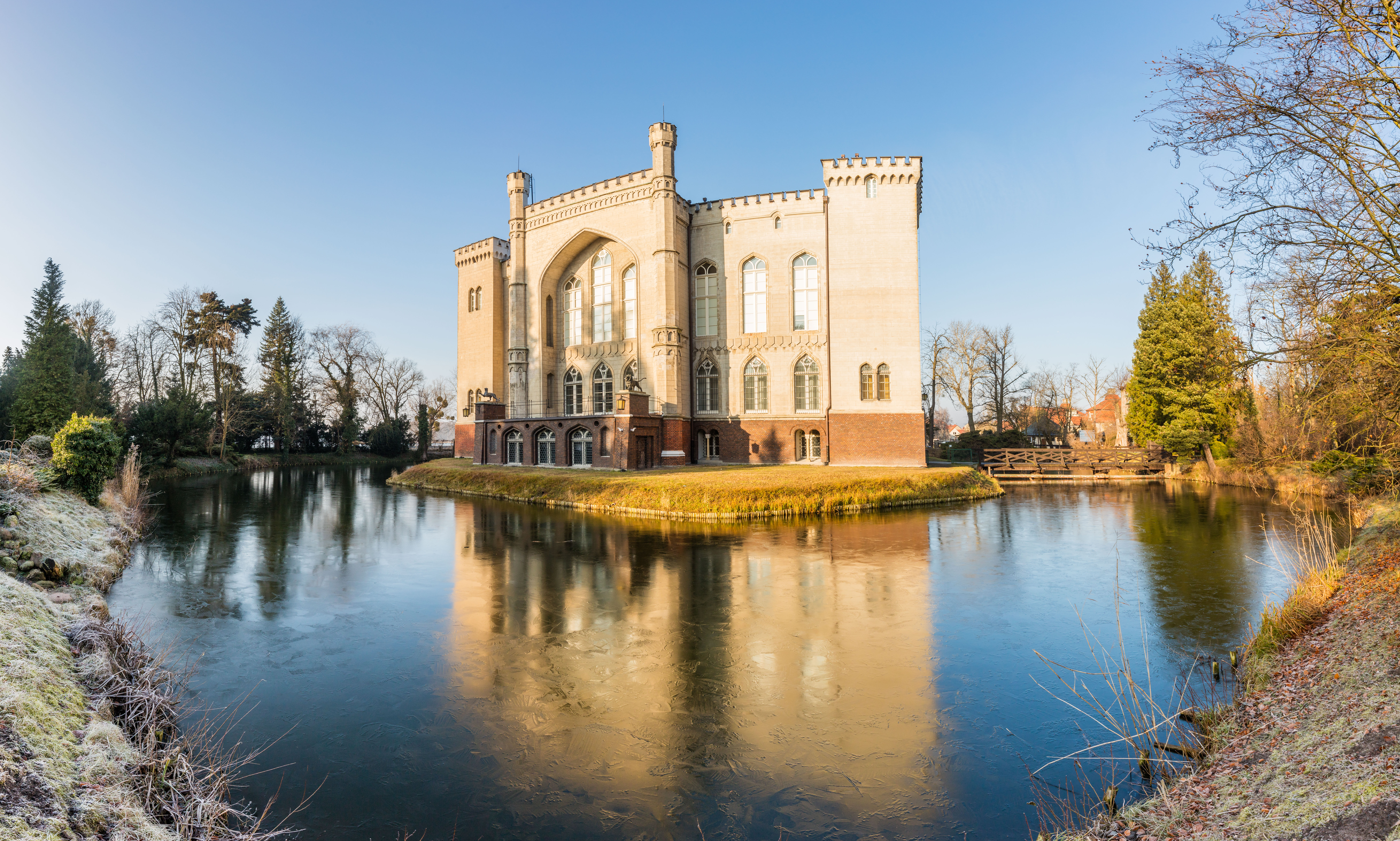 Kórnik Castle, Kórnik, Poland